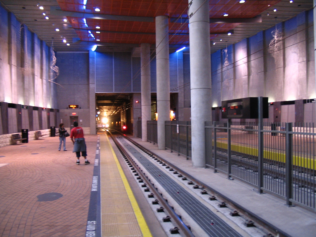 SDSU Trolley Station